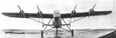 An Airspeed AS.39 Fleet Shadower. Photo taken by an employee of the British government prior to 1956. Original photo is found on: [1]